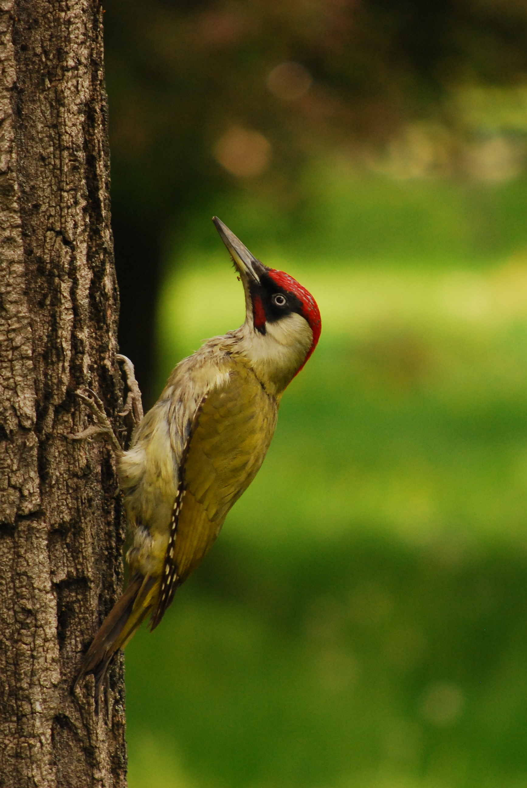 A green woodpecker (picus viridis) photographed in Carol Park, Bucharest, Romania